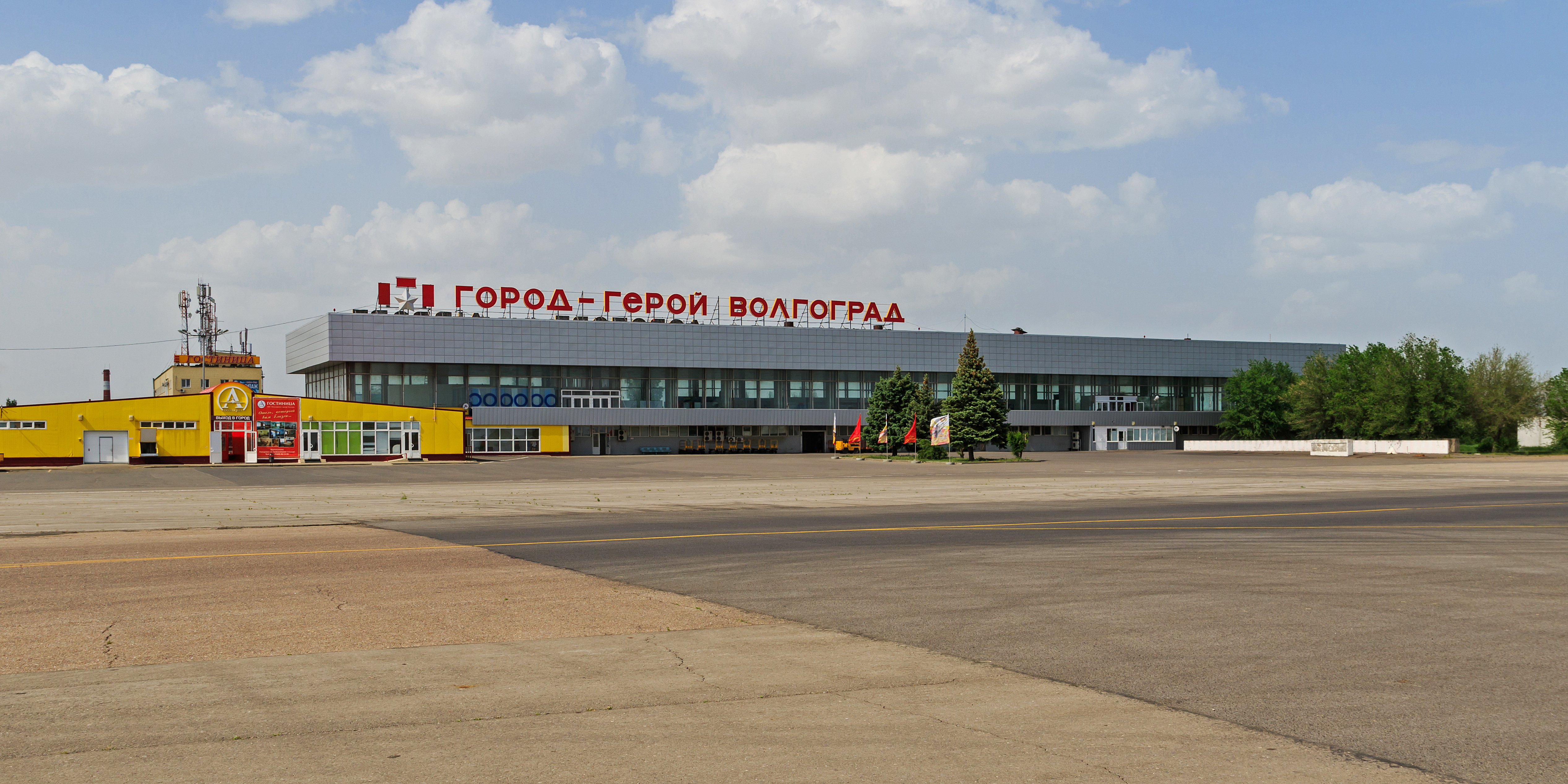 Gumrak Airport in Volgograd, Russia